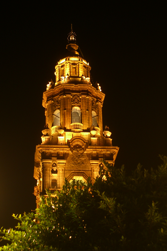 Cathedral of Morelia (Michoacán, Mexico) by night